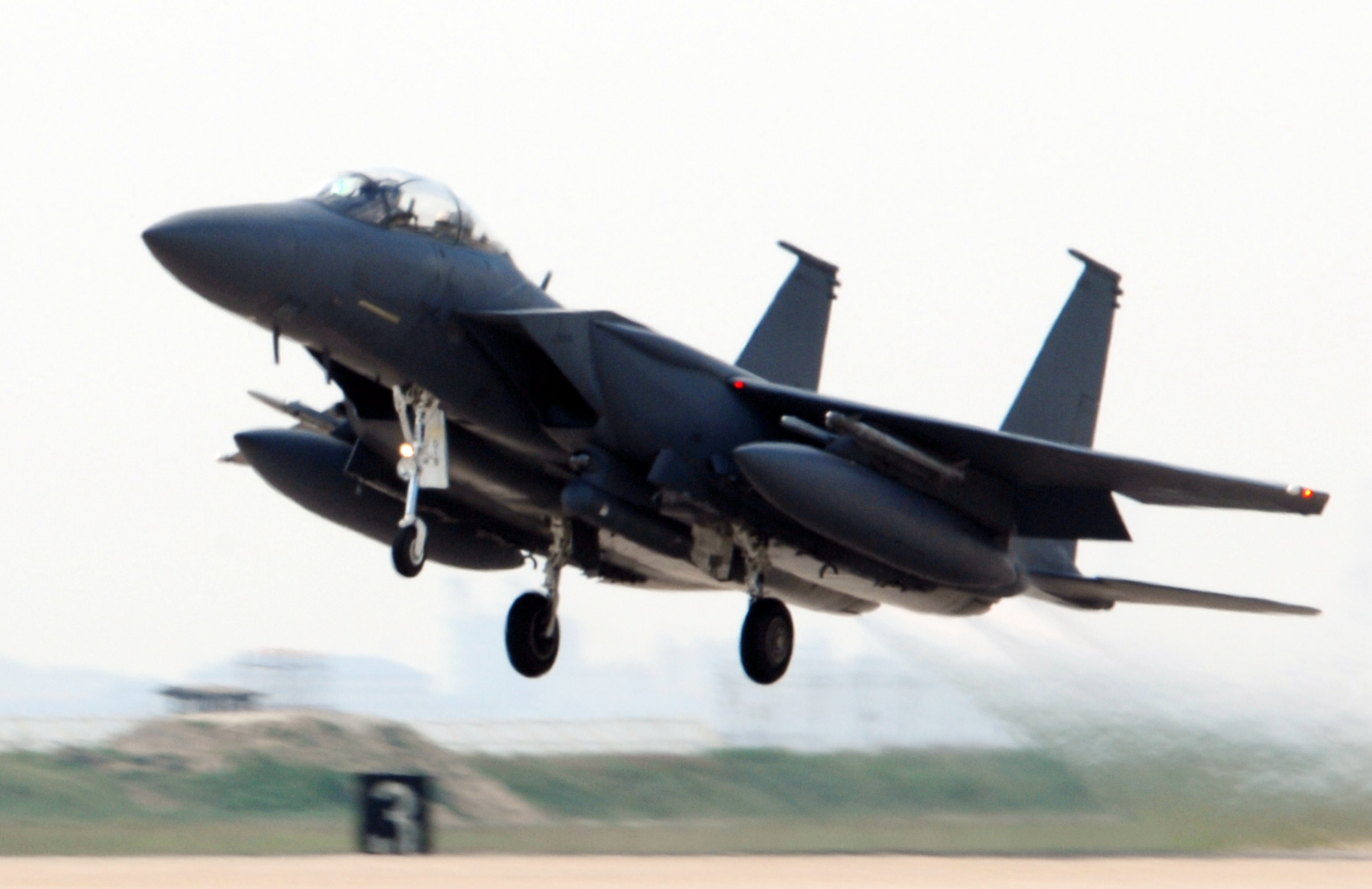 A Republic of Korea Air Force Boeing F-15K Slam Eagle takes off from Kunsan Air Base, Republic of Korea, for a training mission during exercise "Max Thunder 09-01" on 11 May 2009.